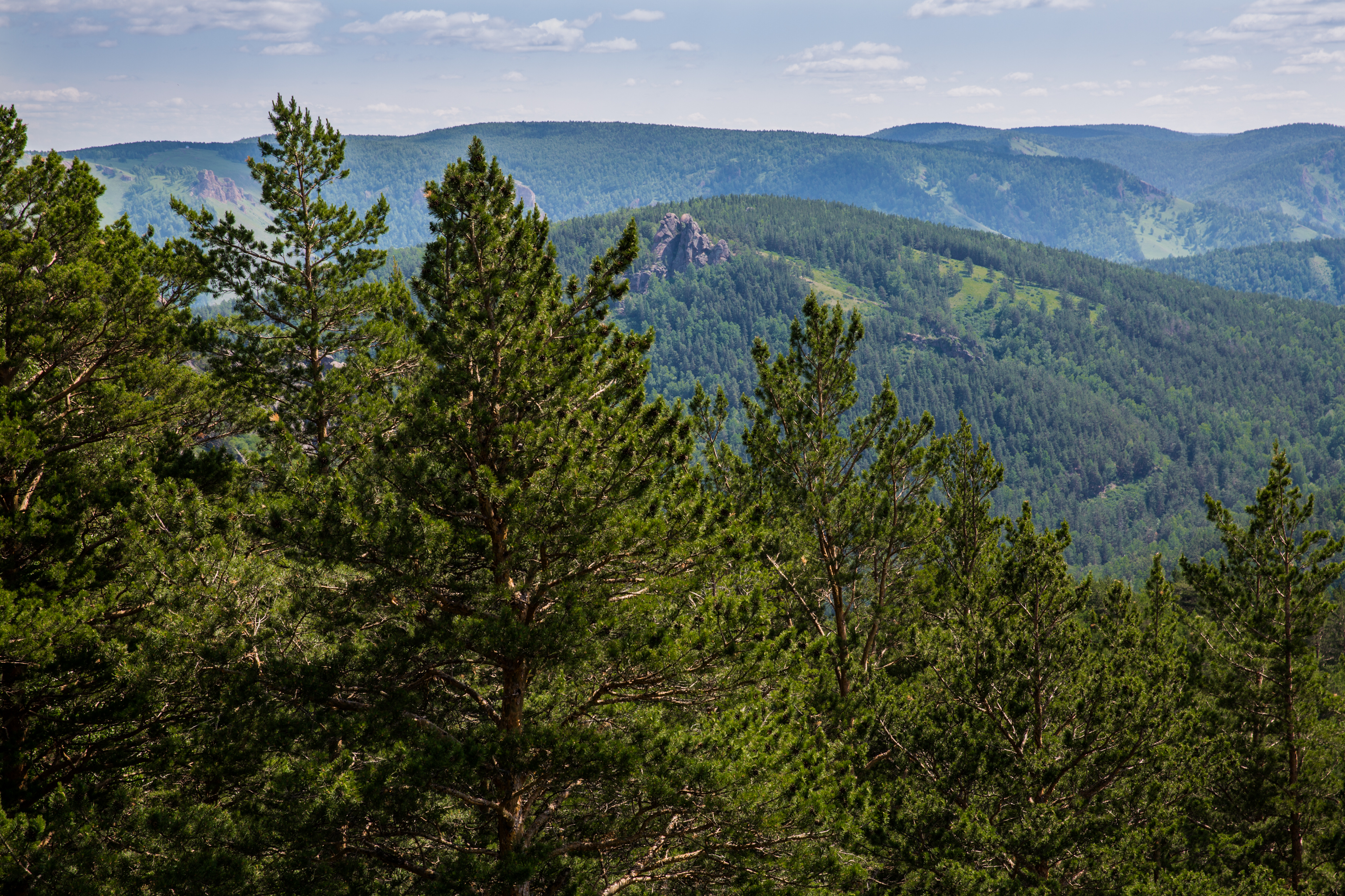 Kuysumy mountains and Torgashinsky range. View from the observation deck on the Kashtakovskaya path in the Stolby reserve. In the foreground are pines and the Ermak rock massif, on the background is the Torgashinsky ridge.